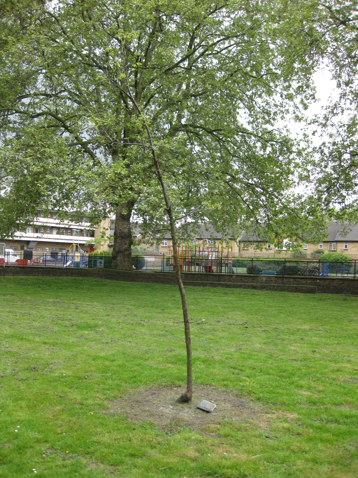 Vandalised oak sapling, planted 2nd October 2007 to mark the key role Octavia Hill and Sayes Court played in the formation of the National Trust through the 1907 Act of Parliament.